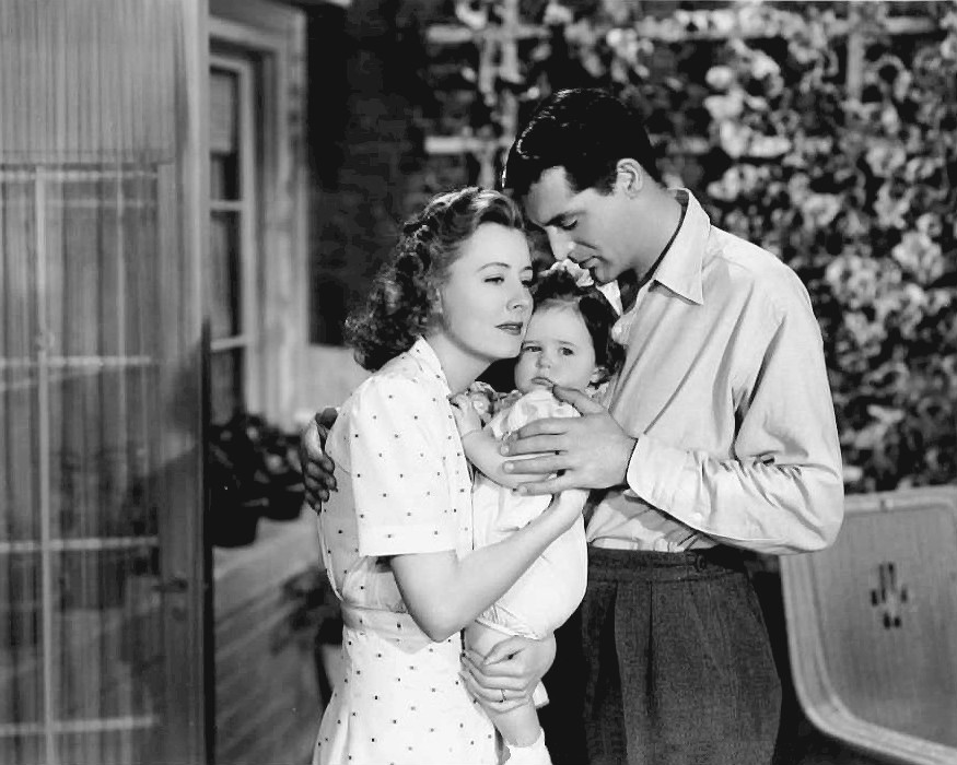 Photo of Cary Grant and Irene Dunne from the 1941 film Penny Serenade. From Modern Screen magazine. Note that the uploaded photo is larger and of better quality than the magazine photo. A renewal search was done in publications for the years 1968 and 1969. There were no listings for the title "Modern Screen". There's no evidence of continuing copyright on the magazine.